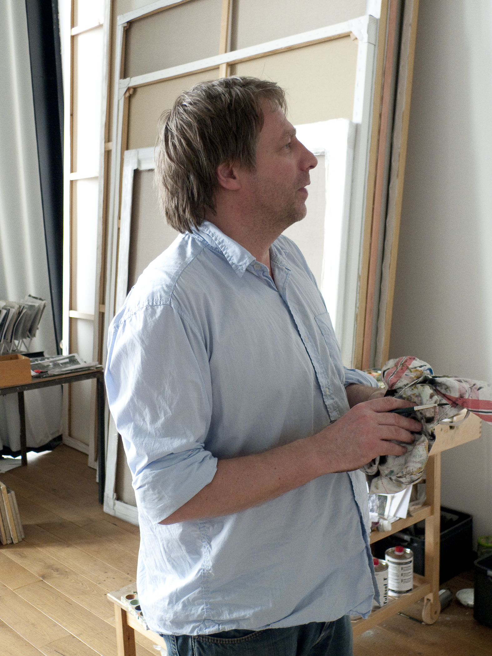 Stefan Kürten in his studio, 2010